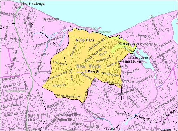 U.S. Census 2000 reference map for Kings Park